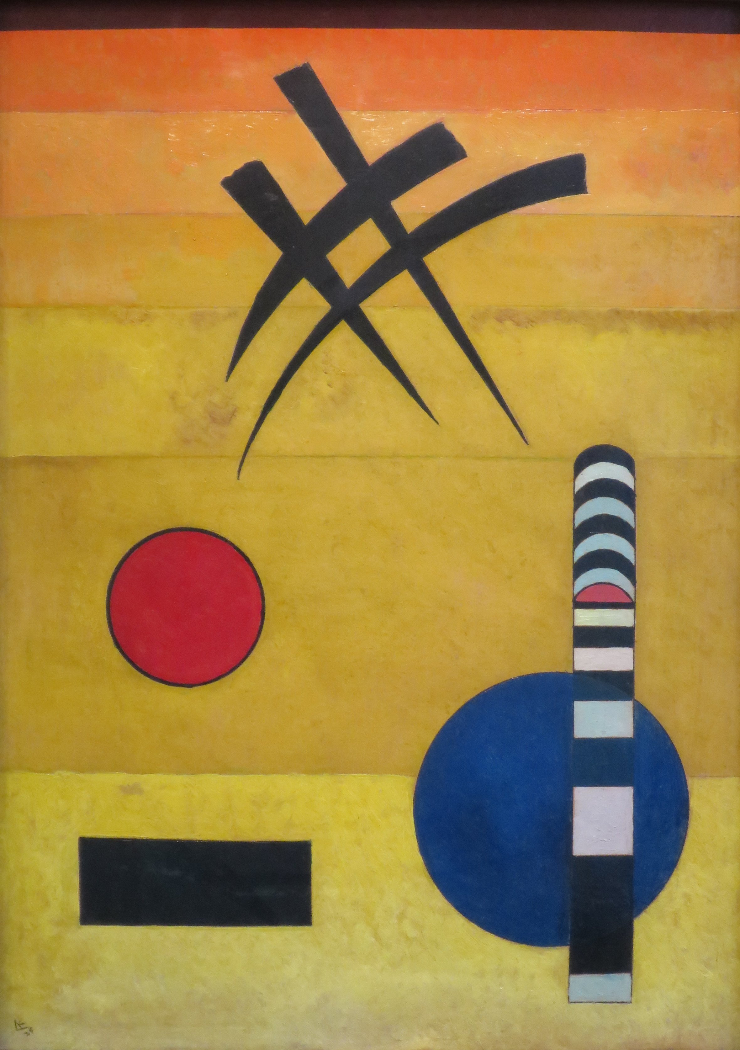 Sign by Wassily Kandinsky, 1925, oil on cardboard, LACMA